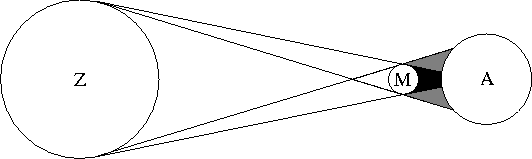 Diagram of a solar eclipse.